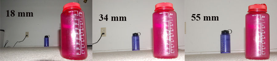 How changing the shooting point along with changing of focal length affects photograph composition. One subject remains the same size, while the other changes size.